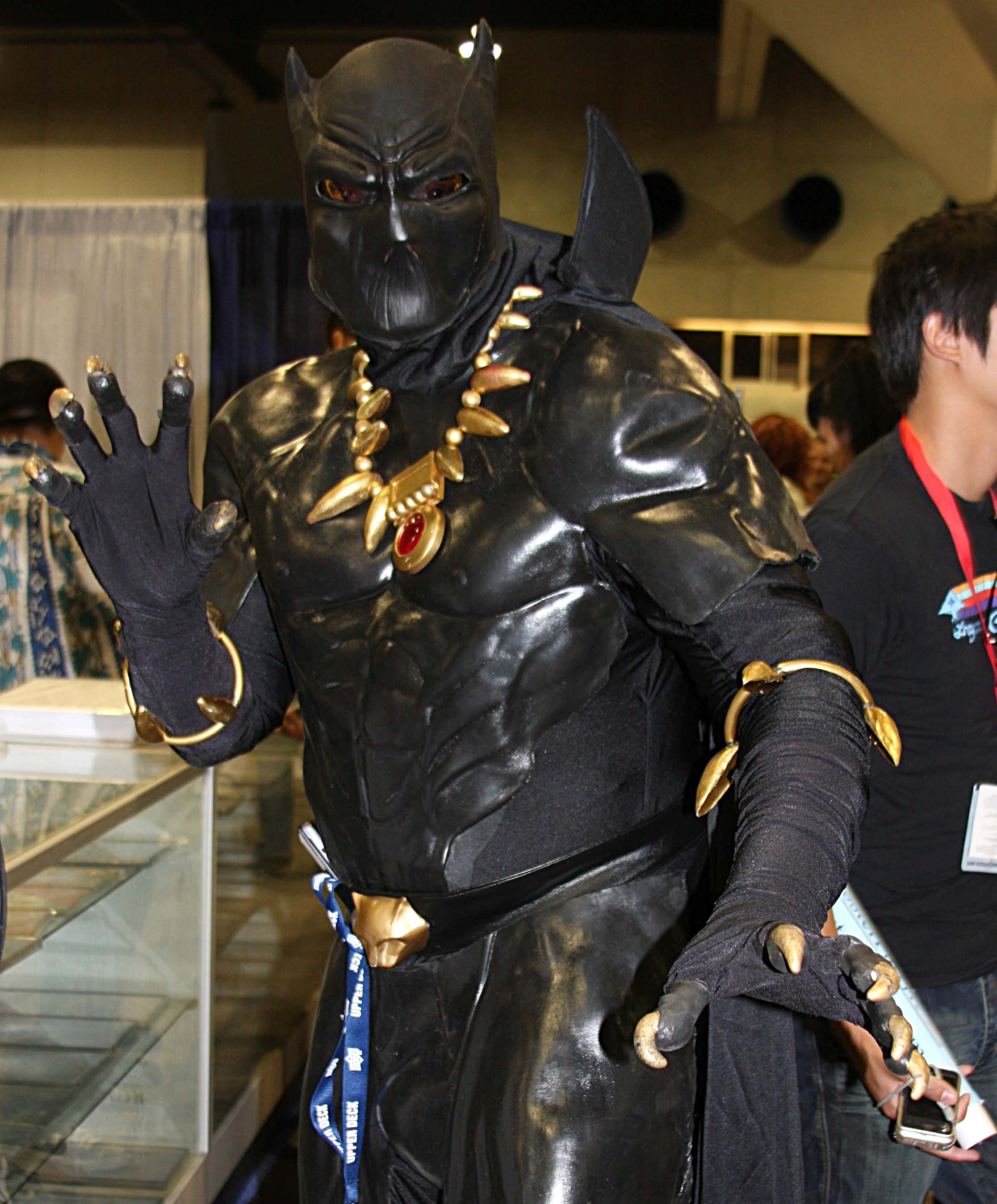 Cosplay of Black Panther at the Comic Con 2009